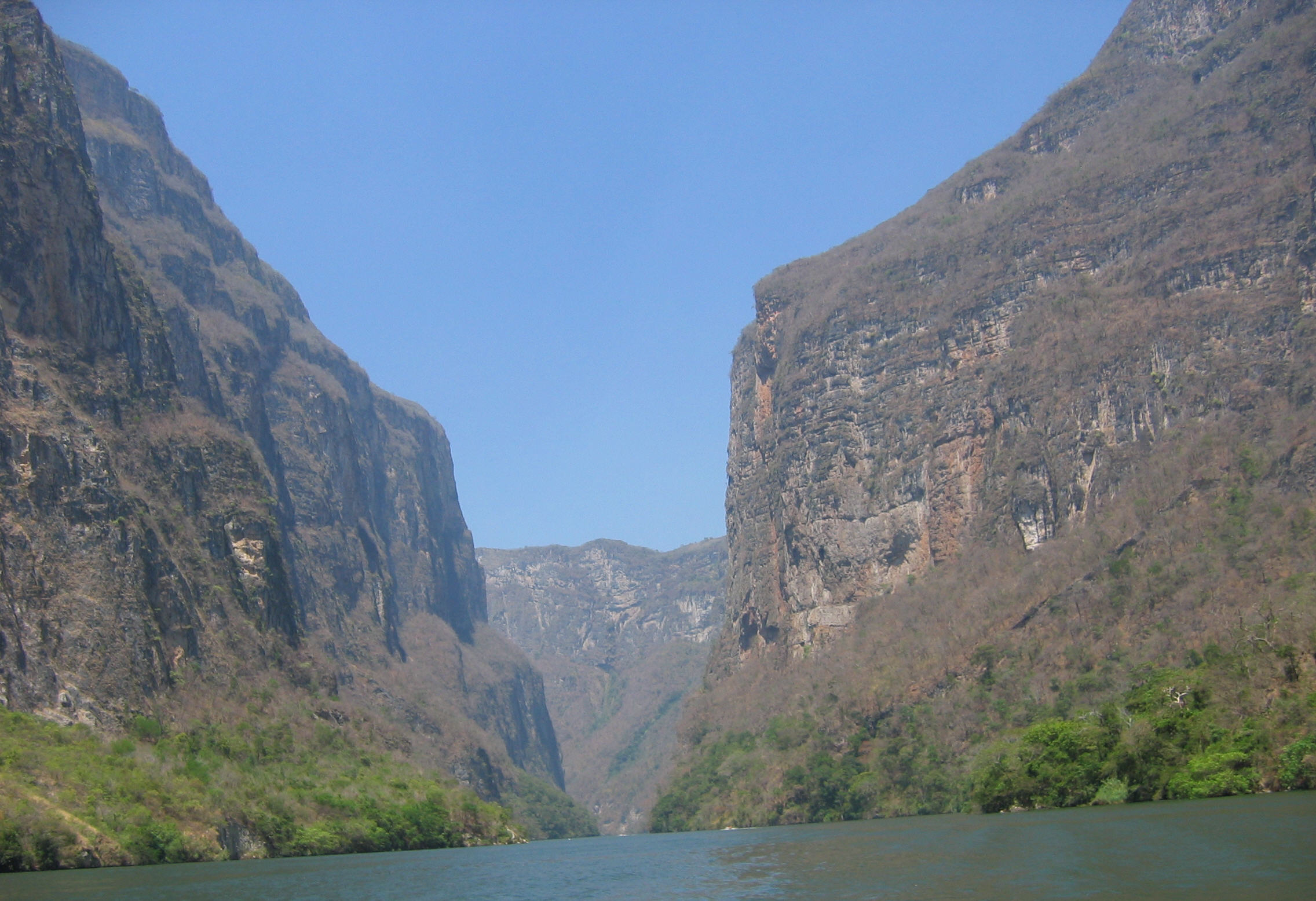 Photo taken by Poppy in March 2005